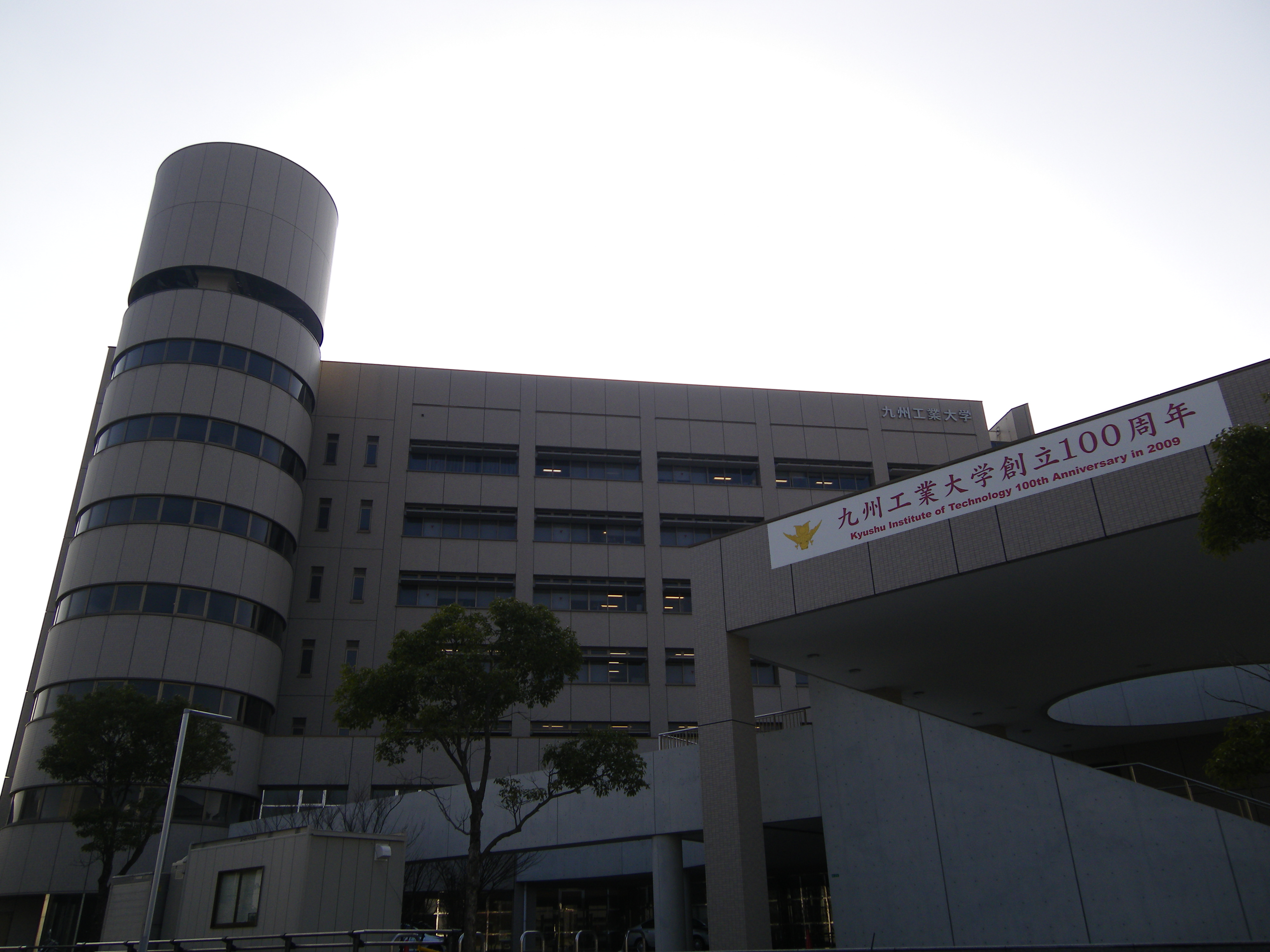 Kyushu Institute of Technology,Wakamatsu campus.